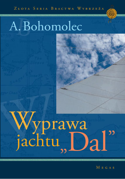 The title page of the book The Journey of Dal by Andrzej Bohomolec